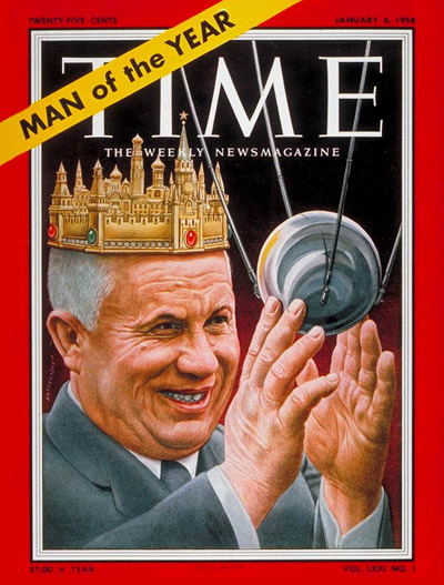 Nikita Khrushchev, Man the Year